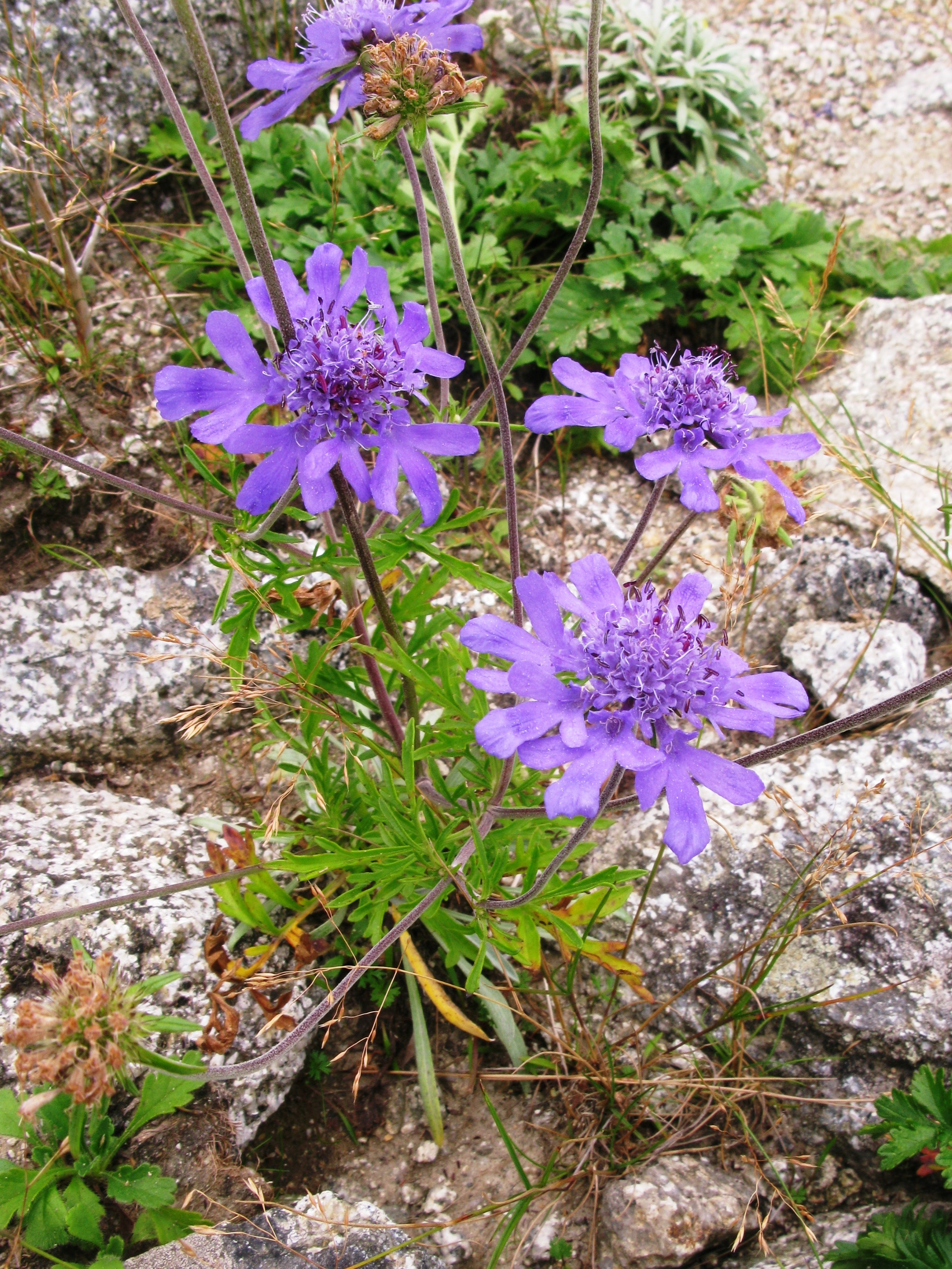 Scabiosa japonica var. alpina, Mt. Iide, Fukushima pref., Japan